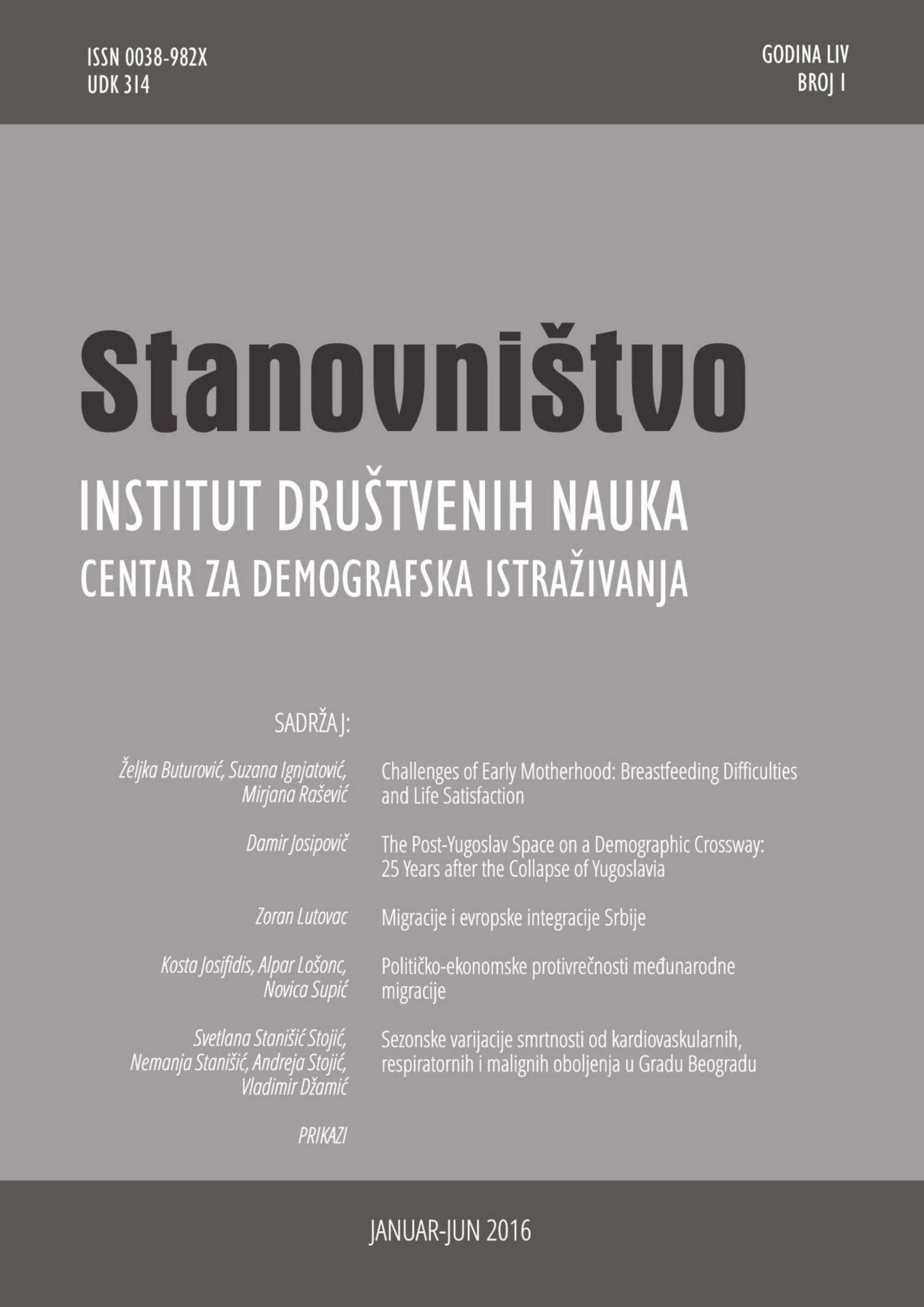 Cover Stanovništvo journal, Belgrade, Serbia